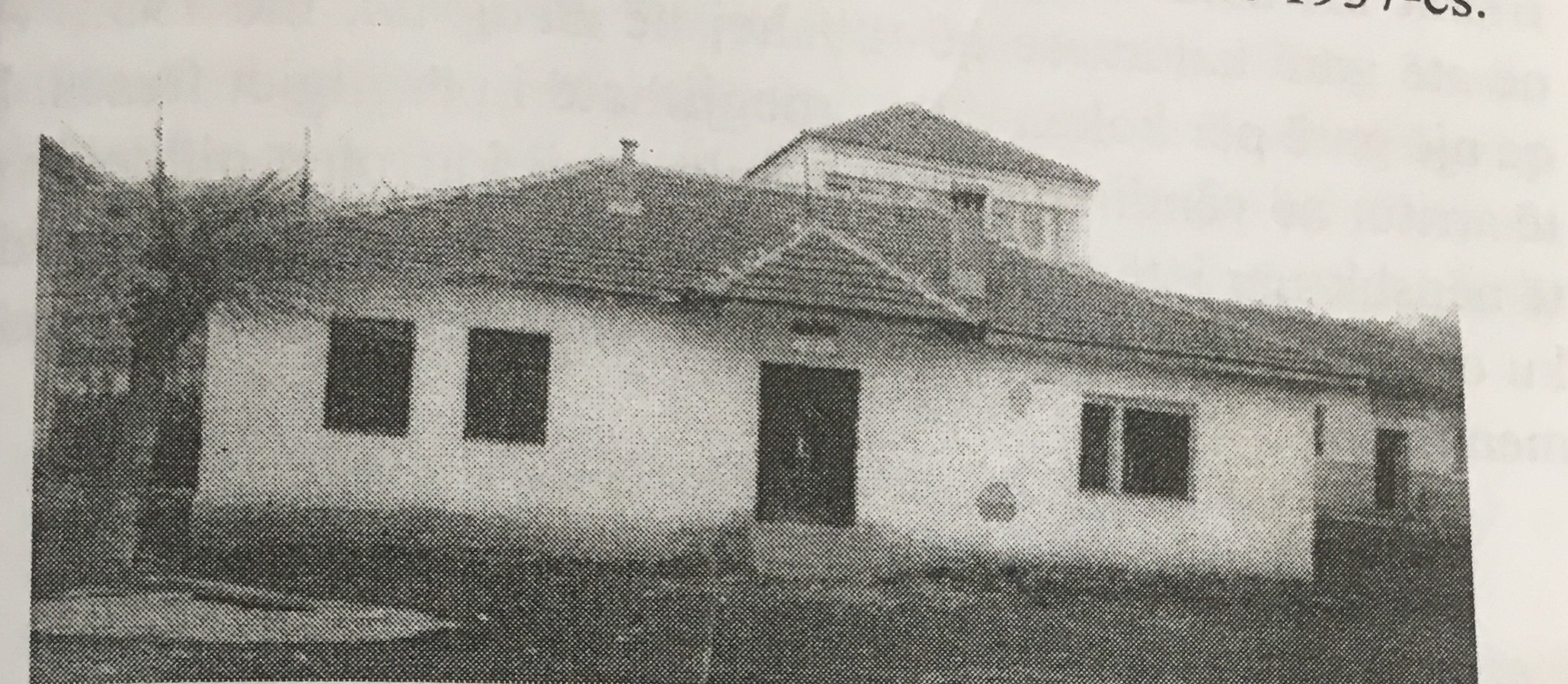 Selia e Komunës së Sllatinës së Lepencit deri më 1945